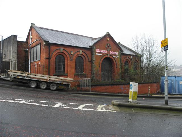 Bargain Bottle, Derry / Londonderry. This red brick-building was part of the original railway station